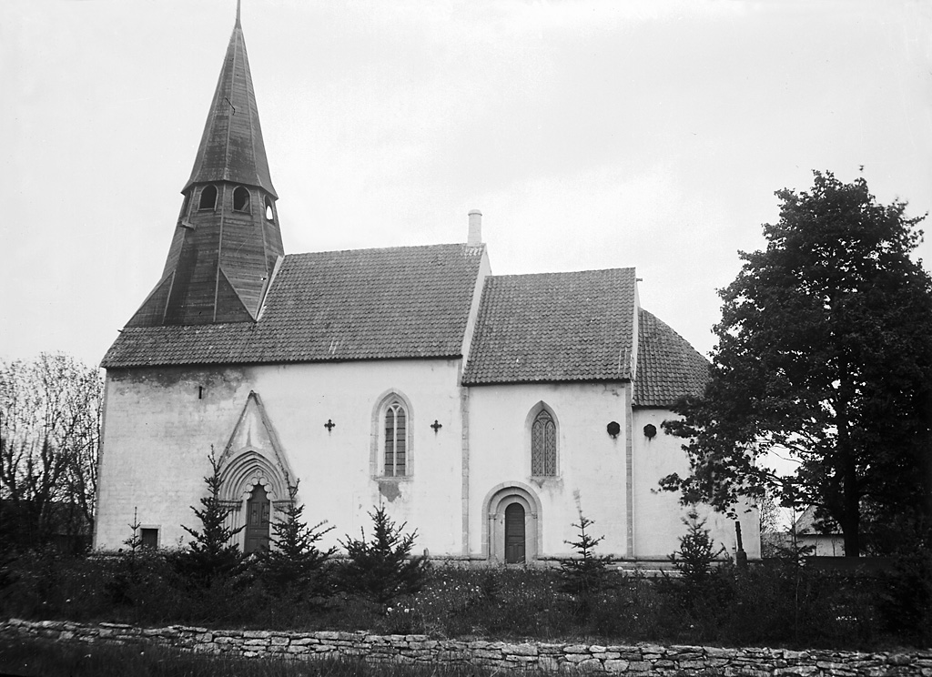 Atlingbo Church from the 13th century, on the island of Gotland. Atlingbo kyrka på Gotland, från 1200-talet. Parish (socken): Atlingbo Province (landskap): Gotland Municipality (kommun): Gotland County (län): Gotland Photograph by: Einar Erici Date: 1914 Format: Glass plate negative Kulturmiljöbild: 16000200014326 (Persistent URL) Read more about the photo database (in english)